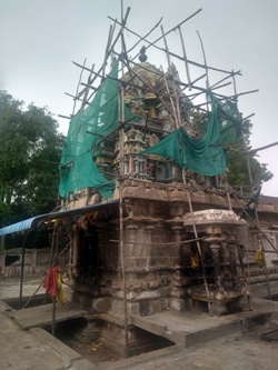 Tiruvarur thoovanayanar temple திருவாரூர் தூவாநாயனார் கோயில்